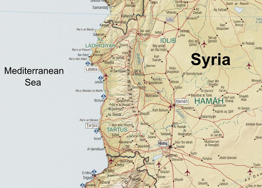 Syria. United States. Central Intelligence Agency. CREATED/PUBLISHED [Washington, D.C. : Central Intelligence Agency, 2004] NOTES "803011 (C00612) 1-04." Scale 1:1,300,000 ; Lambert conformal conic proj., standard parallels 32010'N and 38020'N (E 350--E 420/N 370--N 320). SUBJECTS Syria--Maps. Syria. MEDIUM 1 map : col. ; 66 x 66 cm. CALL NUMBER G7460 2004 .U5 REPOSITORY Library of Congress Geography and Map Division Washington, D.C. 20540-4650 USA DIGITAL ID g7460 ct001190